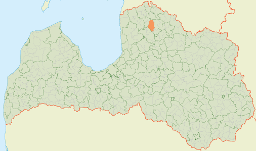 Location of Burtnieki Parish in Latvia